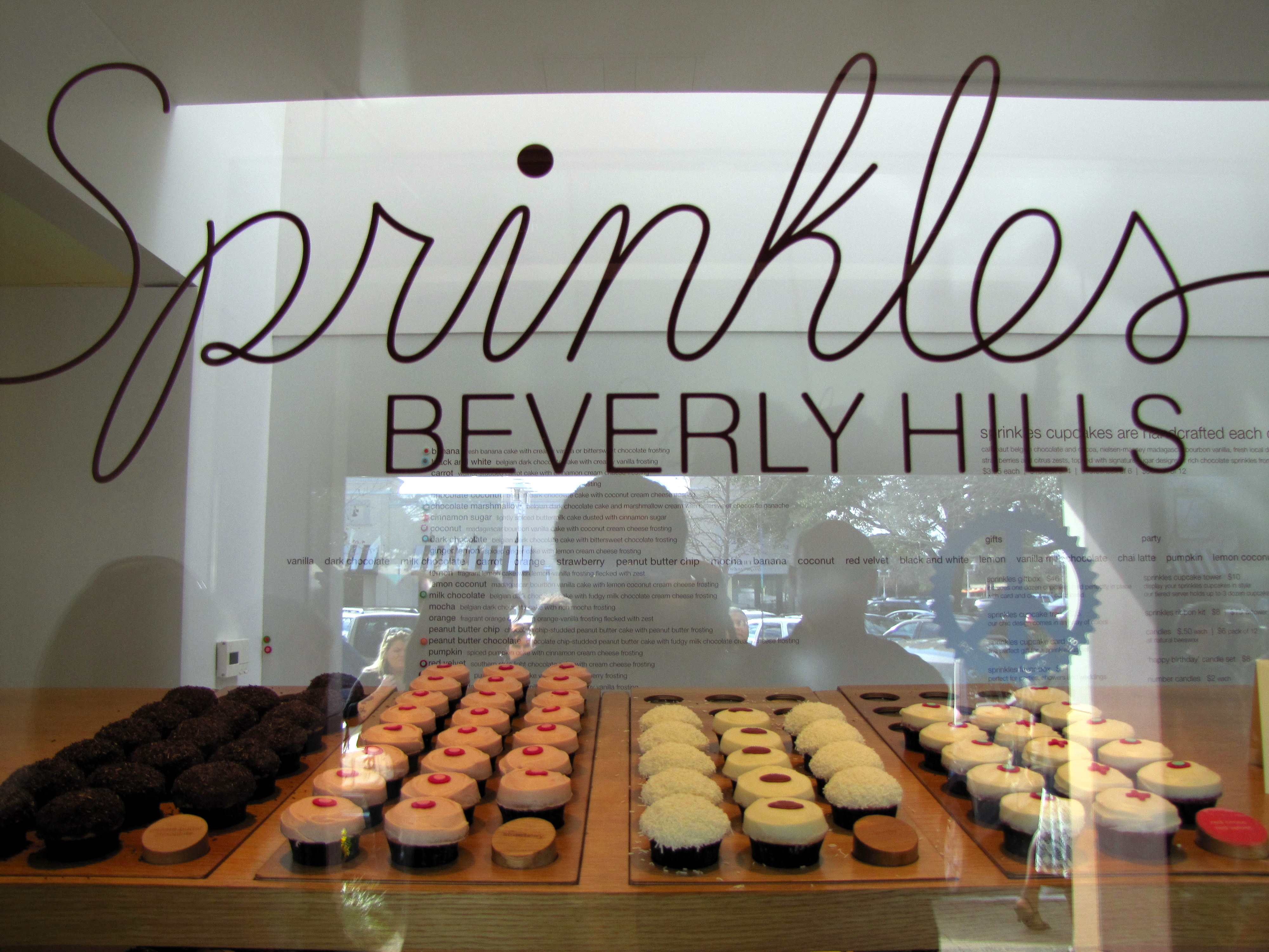 A visit to Sprinkles Cupcakes in Dallas in January, 2010, during their promotion with Red Cross Red Velvet cupcakes to benefit the Haiti Relief Fund (cc) David Berkowitz